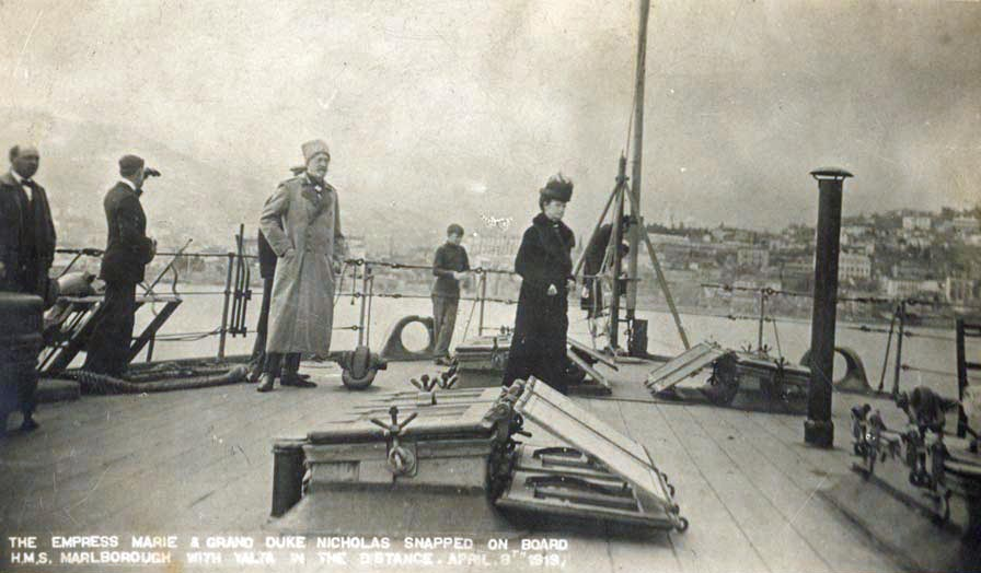 Open Letter (Carte Postale) with photo image showing the the Empress Marie and Grand Duke Nicholas on board HMS Marlborough leaving Russia forevever with Yalta in the distance.